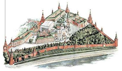 Overview map of the Moscow Kremlin. Location of Borovitskaya Tower marked.